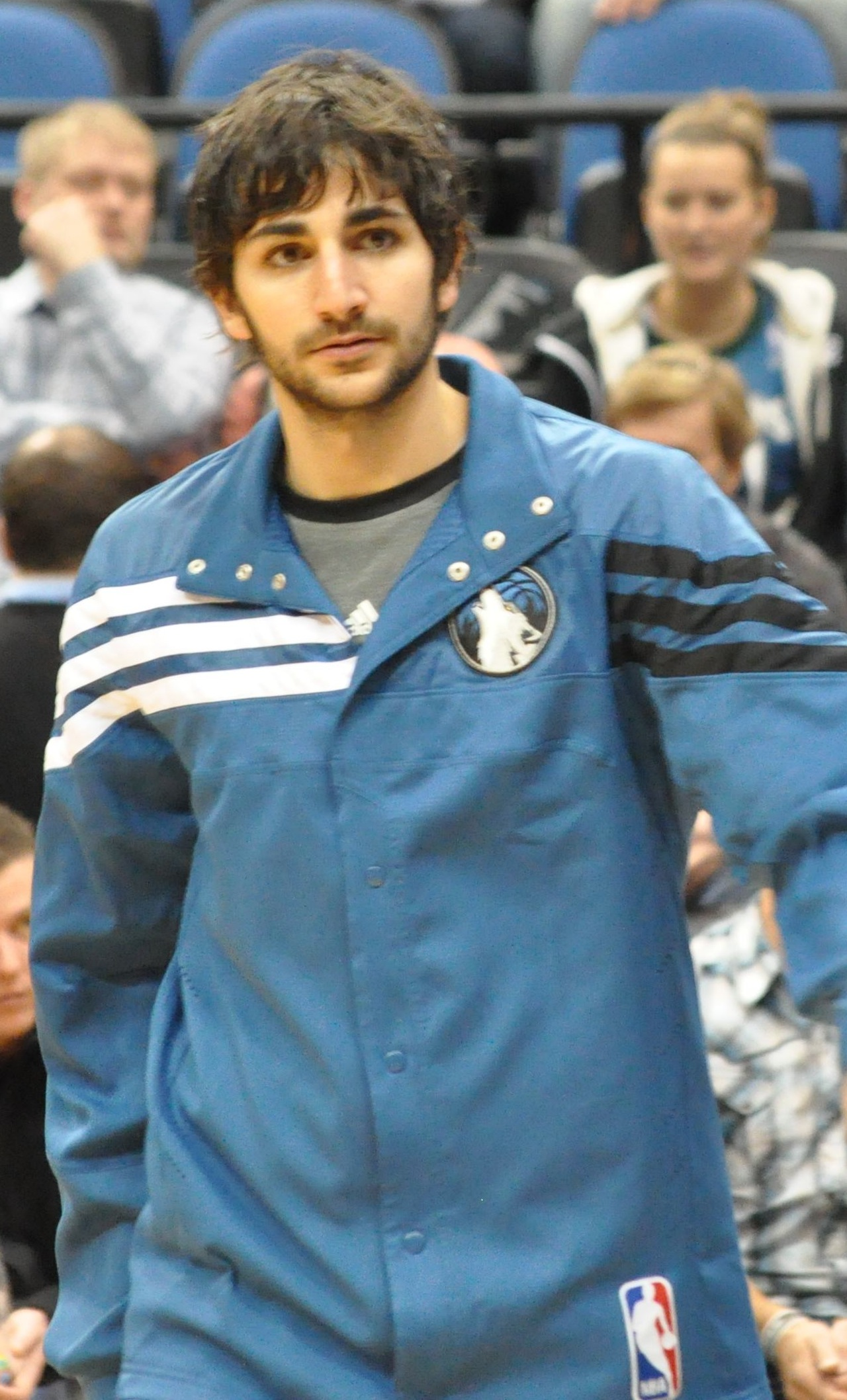 Ricky Rubio of the Minnesota Timberwolves